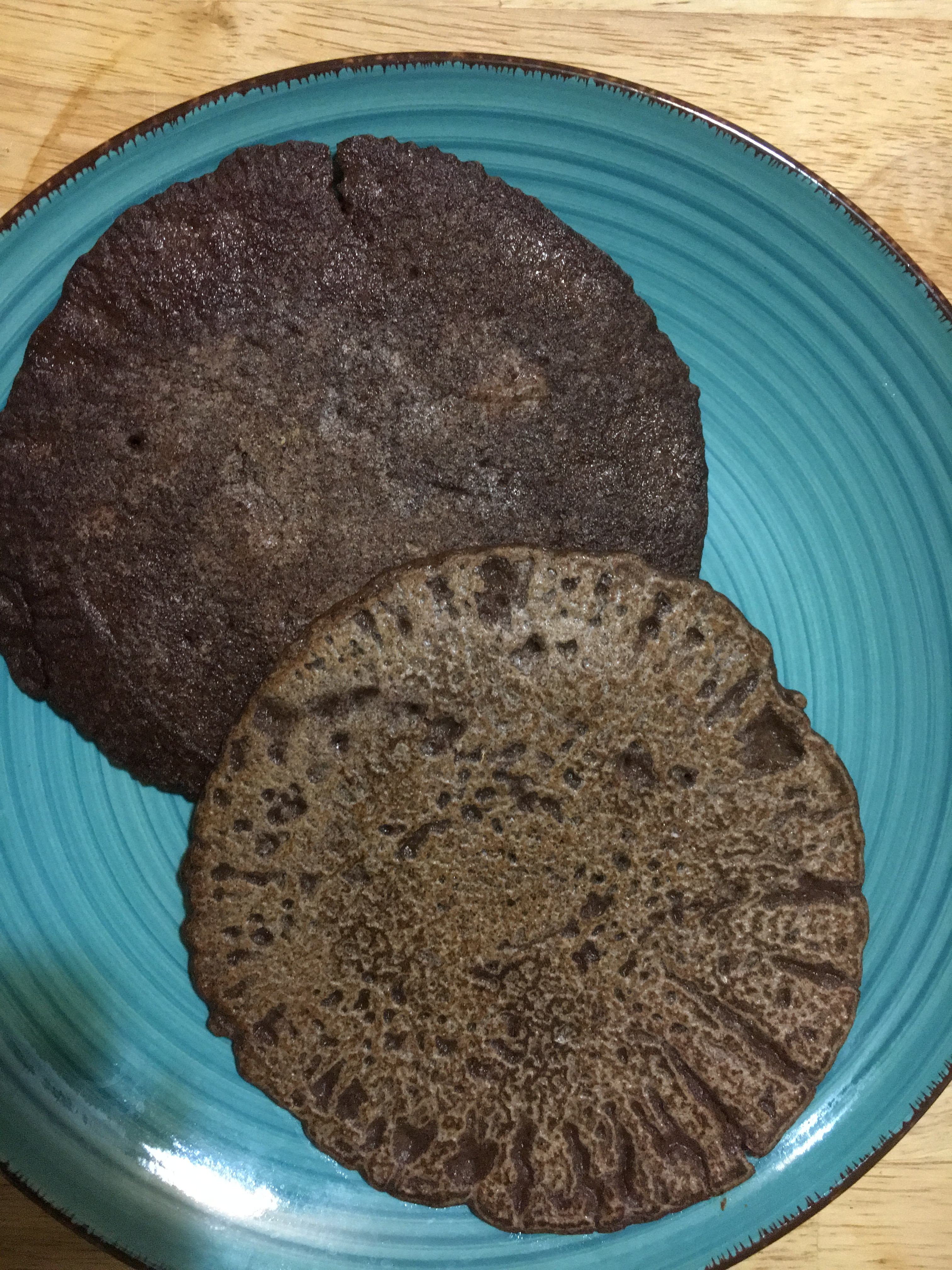 Roti made from Eleusine coracana flour. नेपाली: कोदोको रोटी